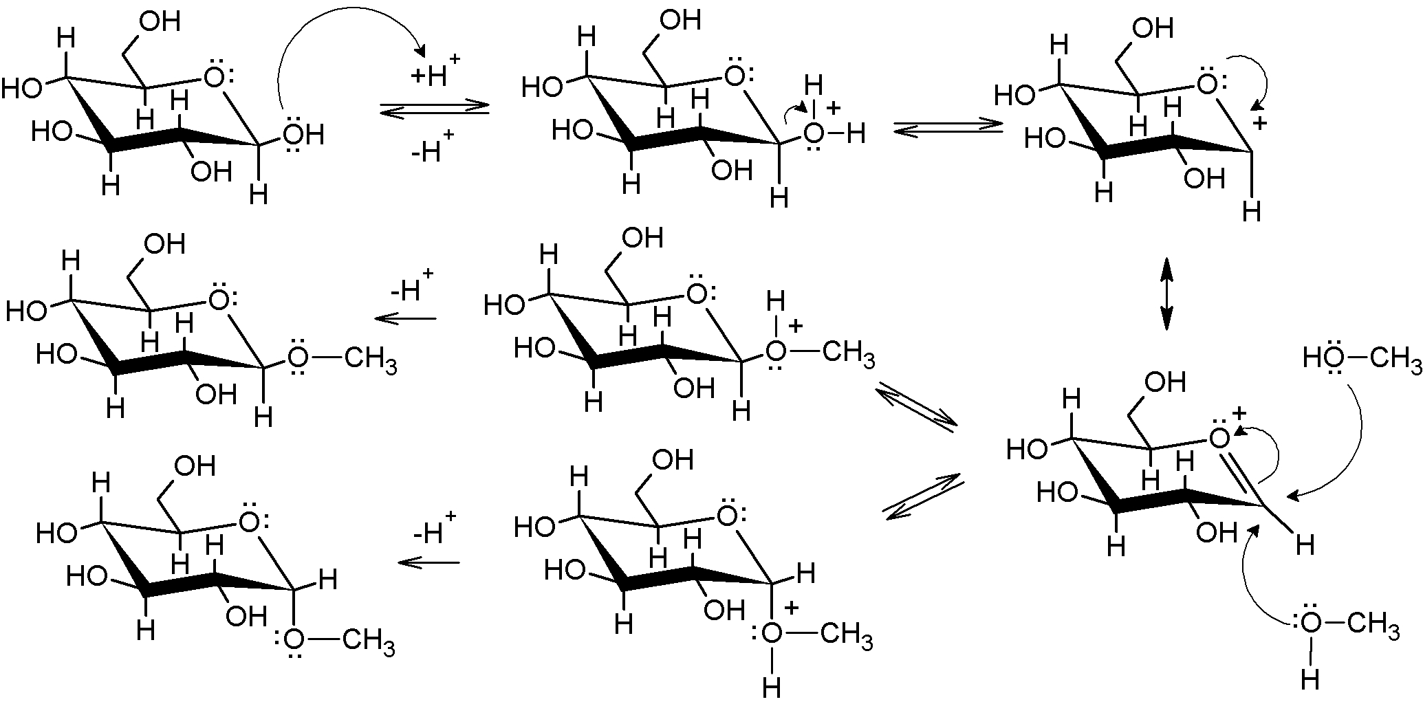 Glycosides formation detailed machanism